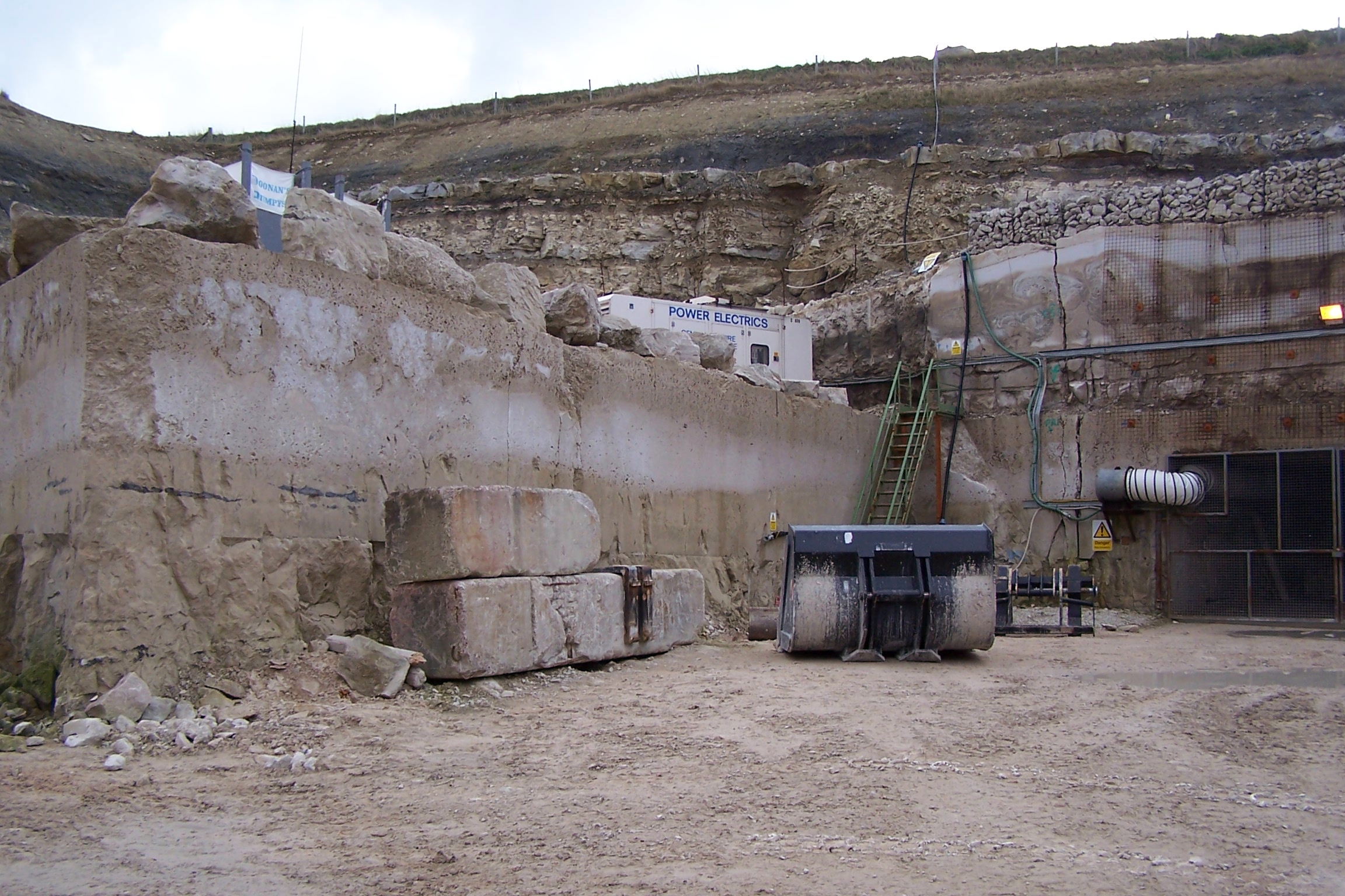 Purbeck limestone quarry in southern England, Jurassic Coast.